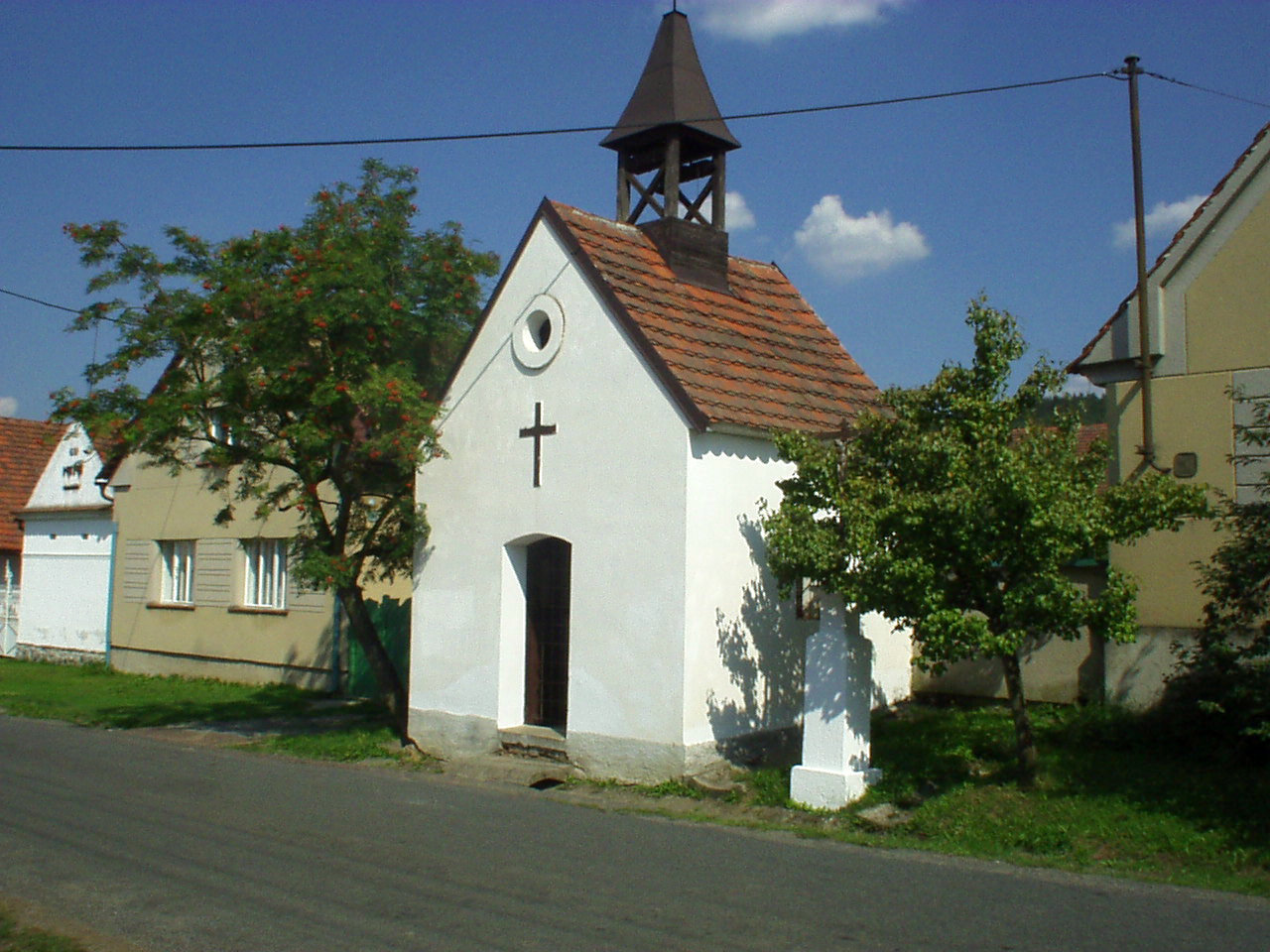 Village chapel in Radkovice